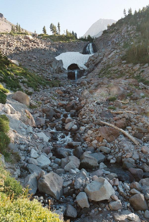 View from the Timberline Trail on the north side of Mt. Hood looking south